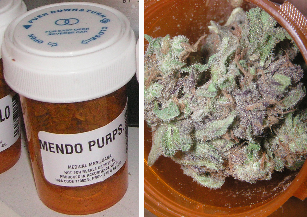 Medical Cannabis